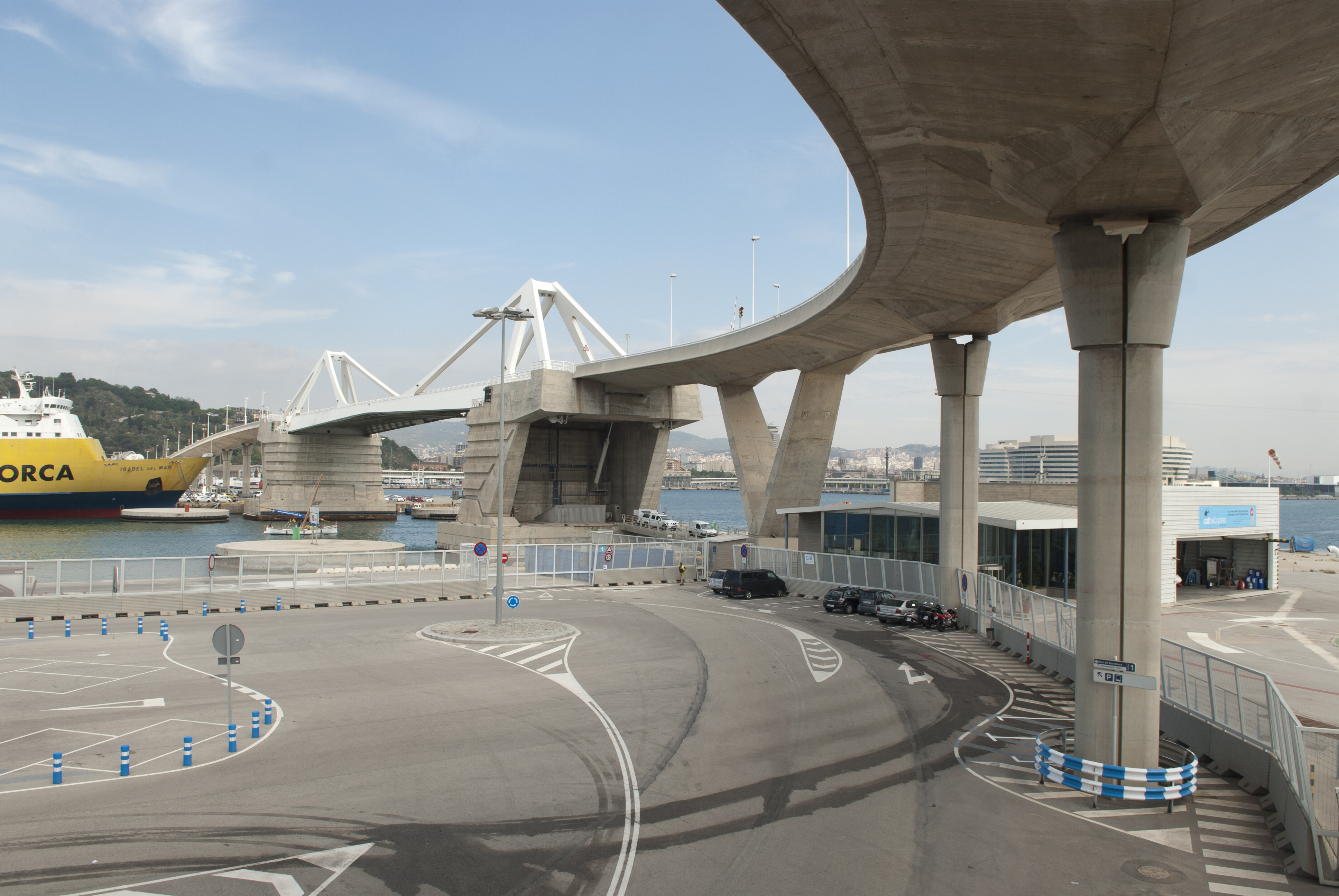 Photo of Porta d'Europa